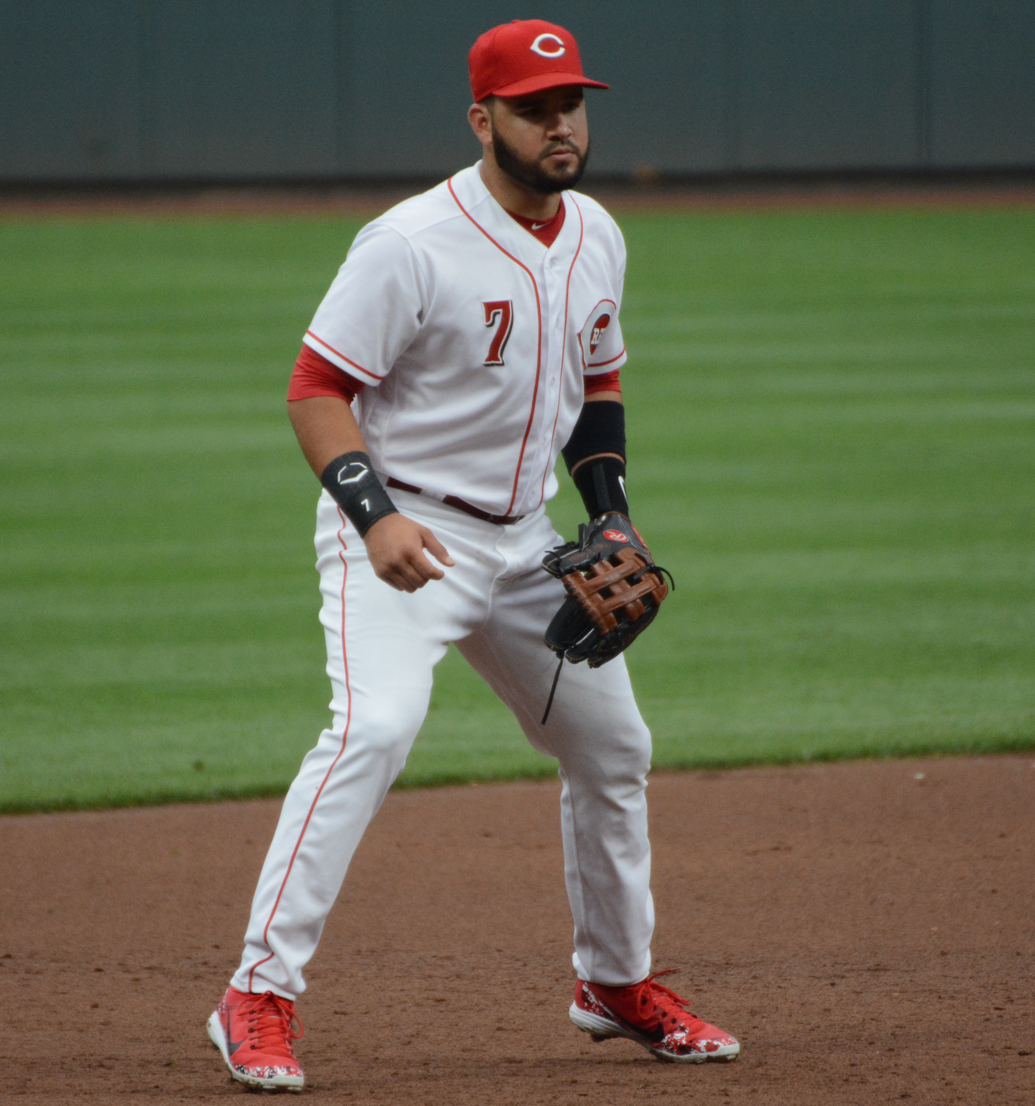 Taken at a baseball game between the Cincinnati Reds and the Arizona Diamondbacks on August 11, 2018 at Great American Ball Park in Cincinnati, Ohio.